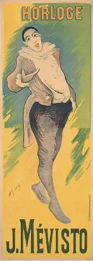 Poster by Ibels for Horloge J. Mevisto